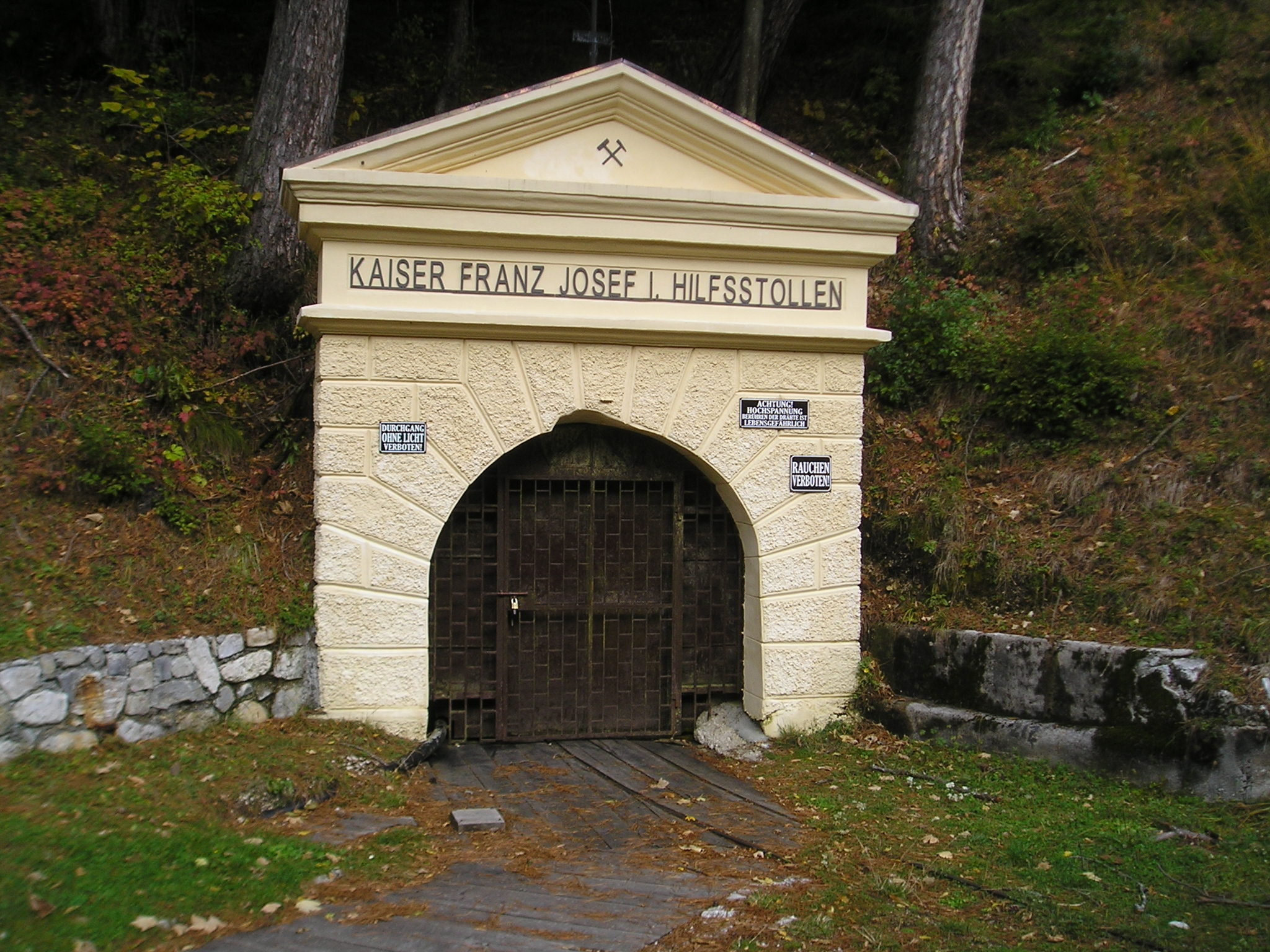 Log pod Mangartom, Slovenia - entry into the tunnel, known as "Štoln" (or "Galleria di Bretto" in Italian), primarily built for drainage of water from the lead mine in Cave del Predil (sl. Rabelj), later also used for transportation of miners (till 1970) and soldiers and goods during WW1